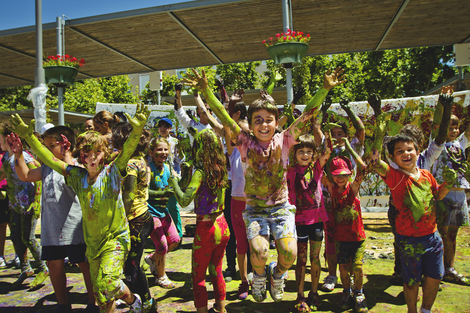 100% Diversity is an art project dedicated to children with disabilities.